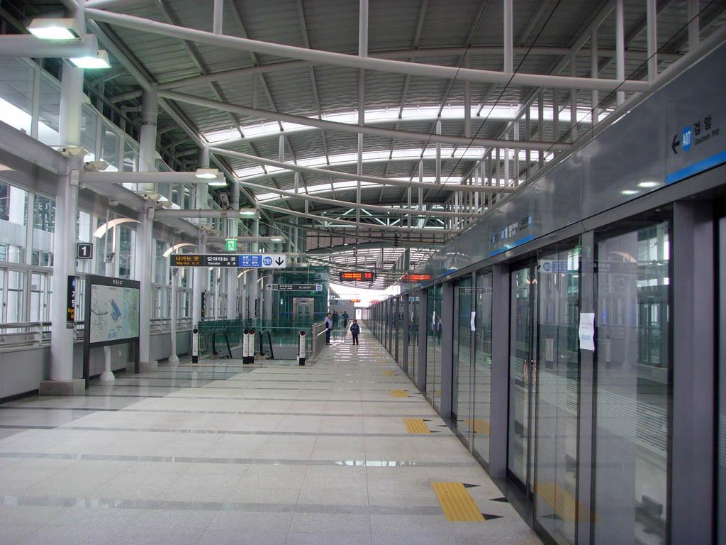 AREX (Airport Railroad EXpress) Gyeyang Station platform